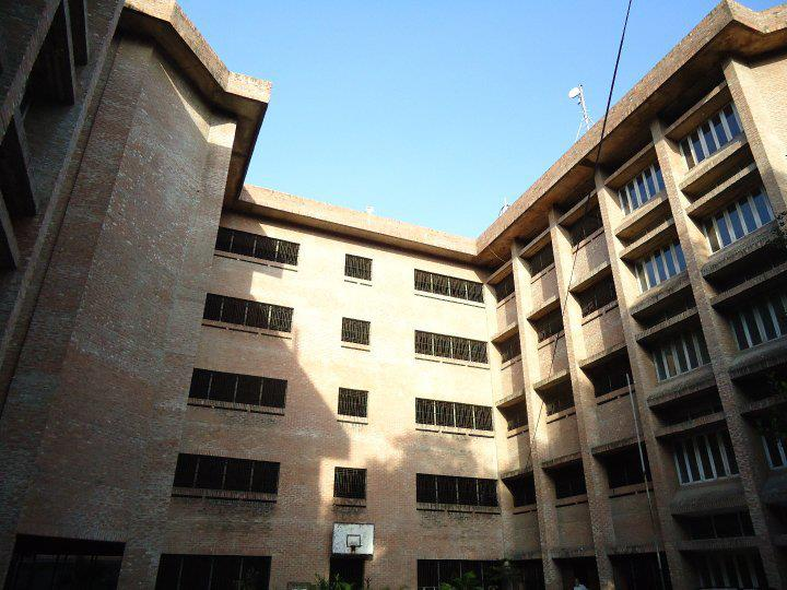 front view of Udayan high school building